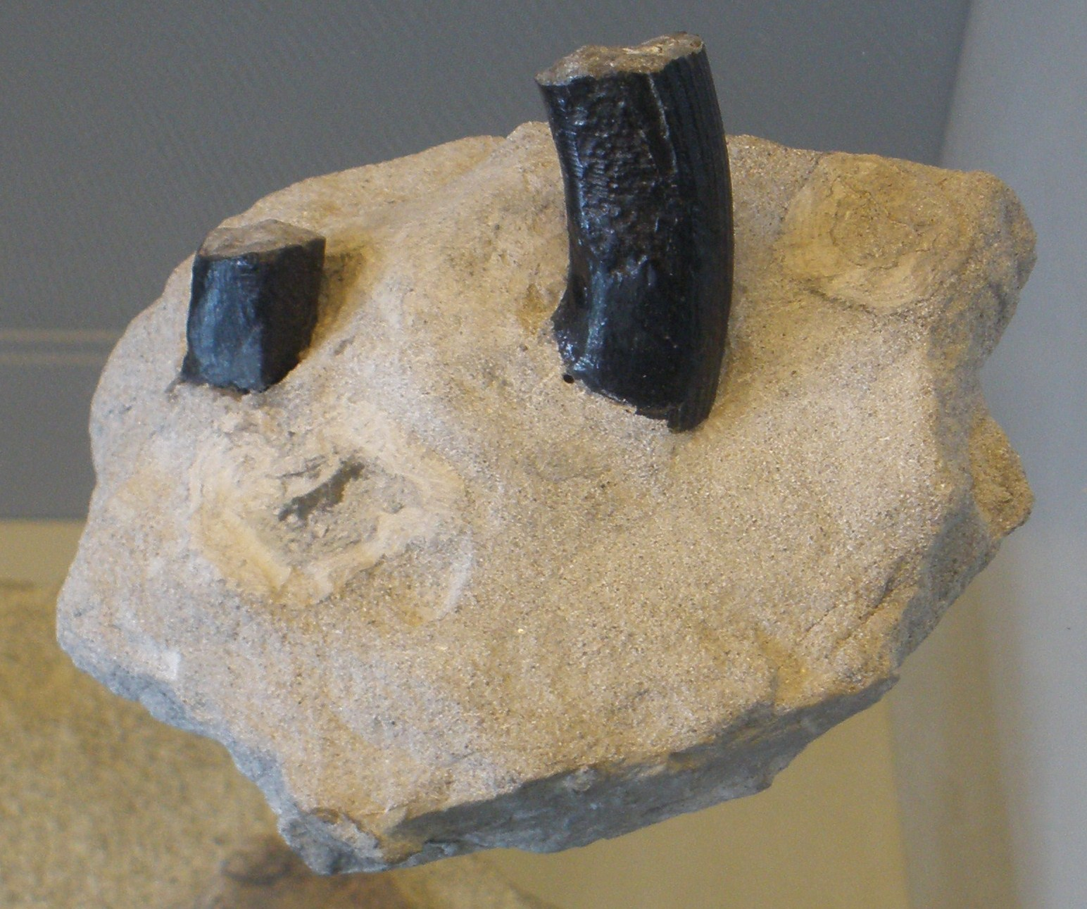 fossil Anchitheriomys